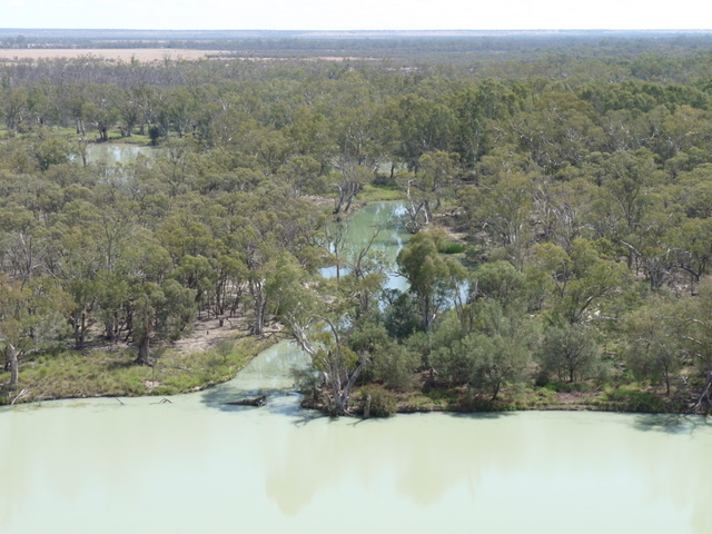 The view of the Murray River and Murtho Forest from Headings lookout towards the west